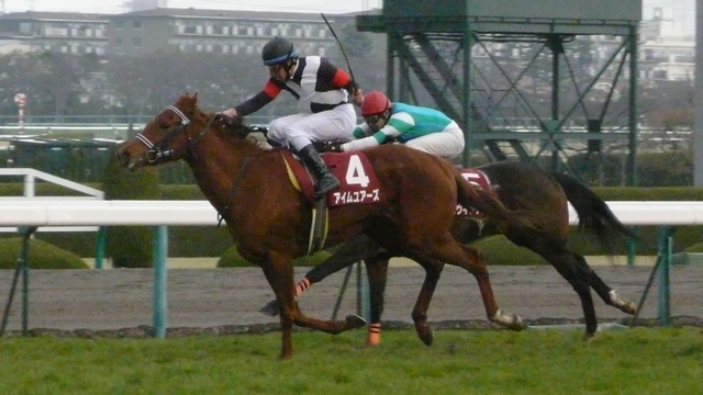 I'm-yours20120311(1)